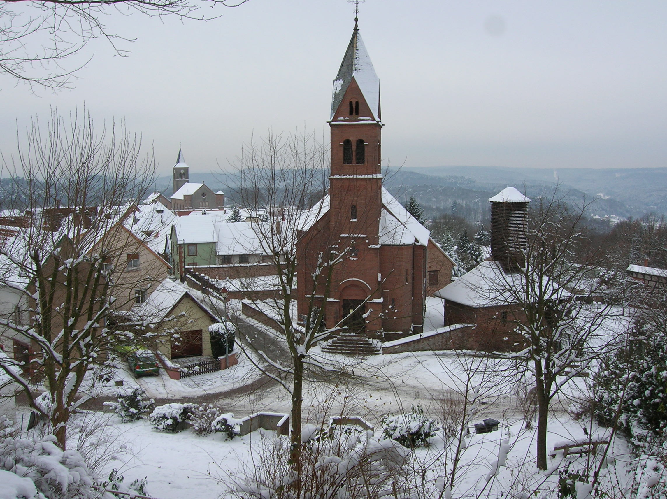 Church in Lichtenberg, Bas-Rhin, France